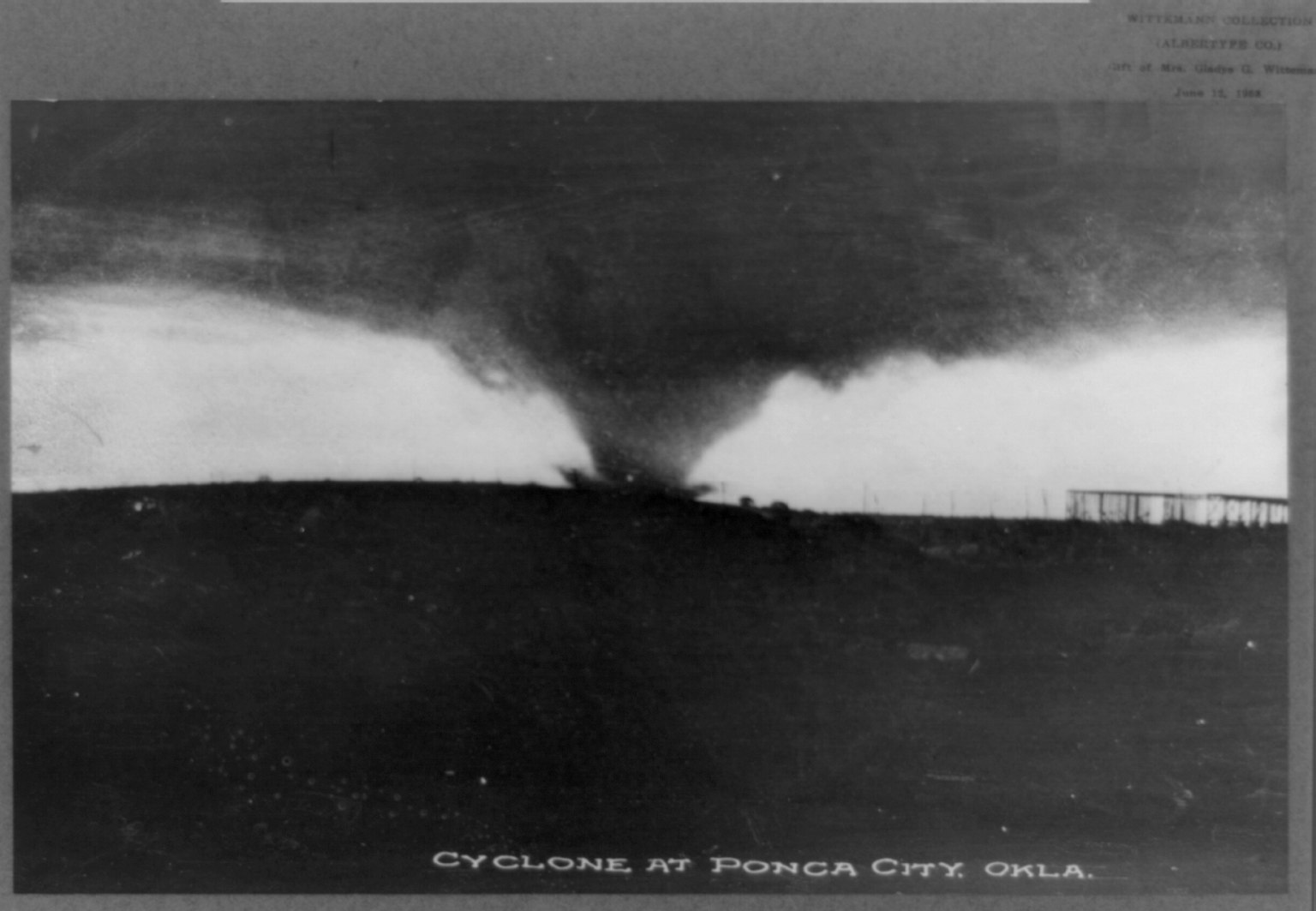 Title: Cyclone at Ponca City, Okla. Abstract/medium: 1 photographic print.